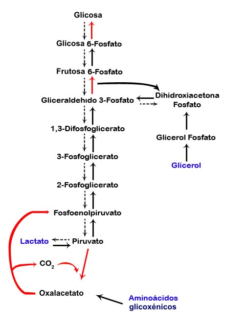 Gluconeogenesis and glycolisis pathways